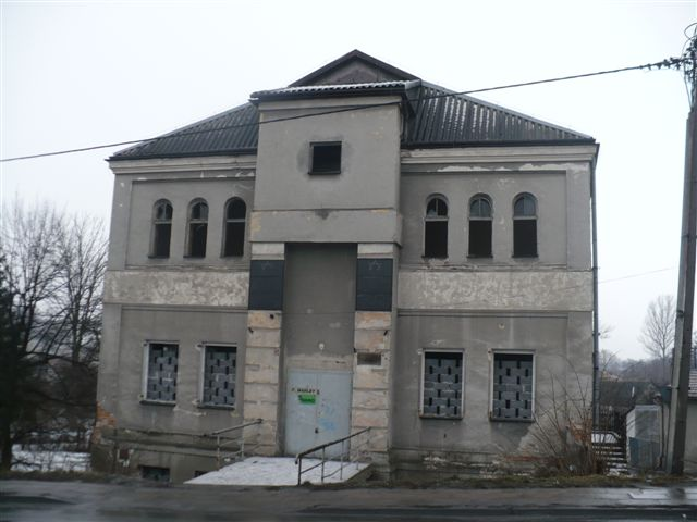 Synagogue in Słomniki